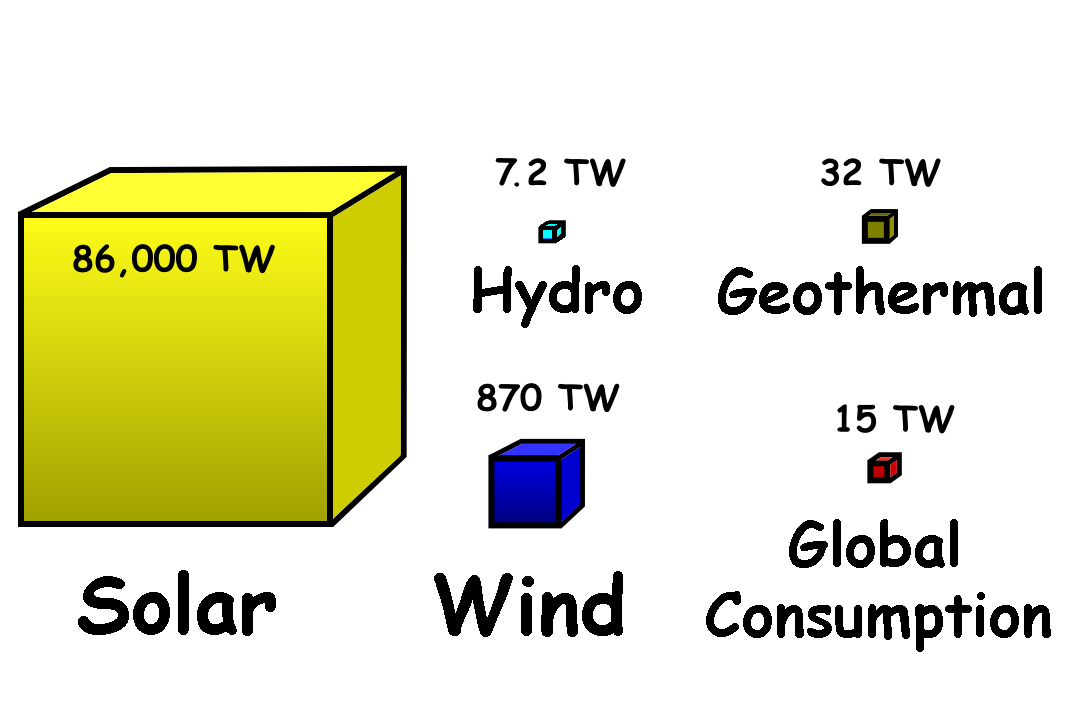 Useful energy (exergy) in surface incident solar radiation, wind, hydro and geothermal[1] compared to global consumption - Energy Information Administration (in 2004, 447.605 Quadrillion btu/yr = 14.965 x 10^12 Watts)[2]